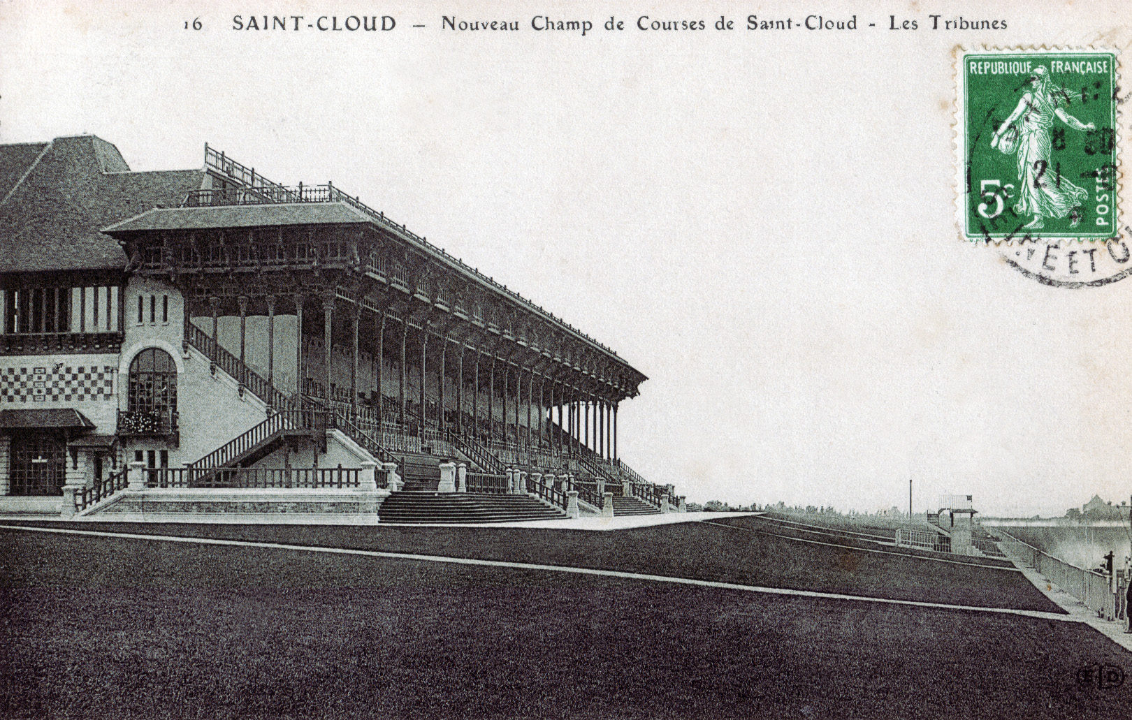 Saint Cloud racecourse circa 1909